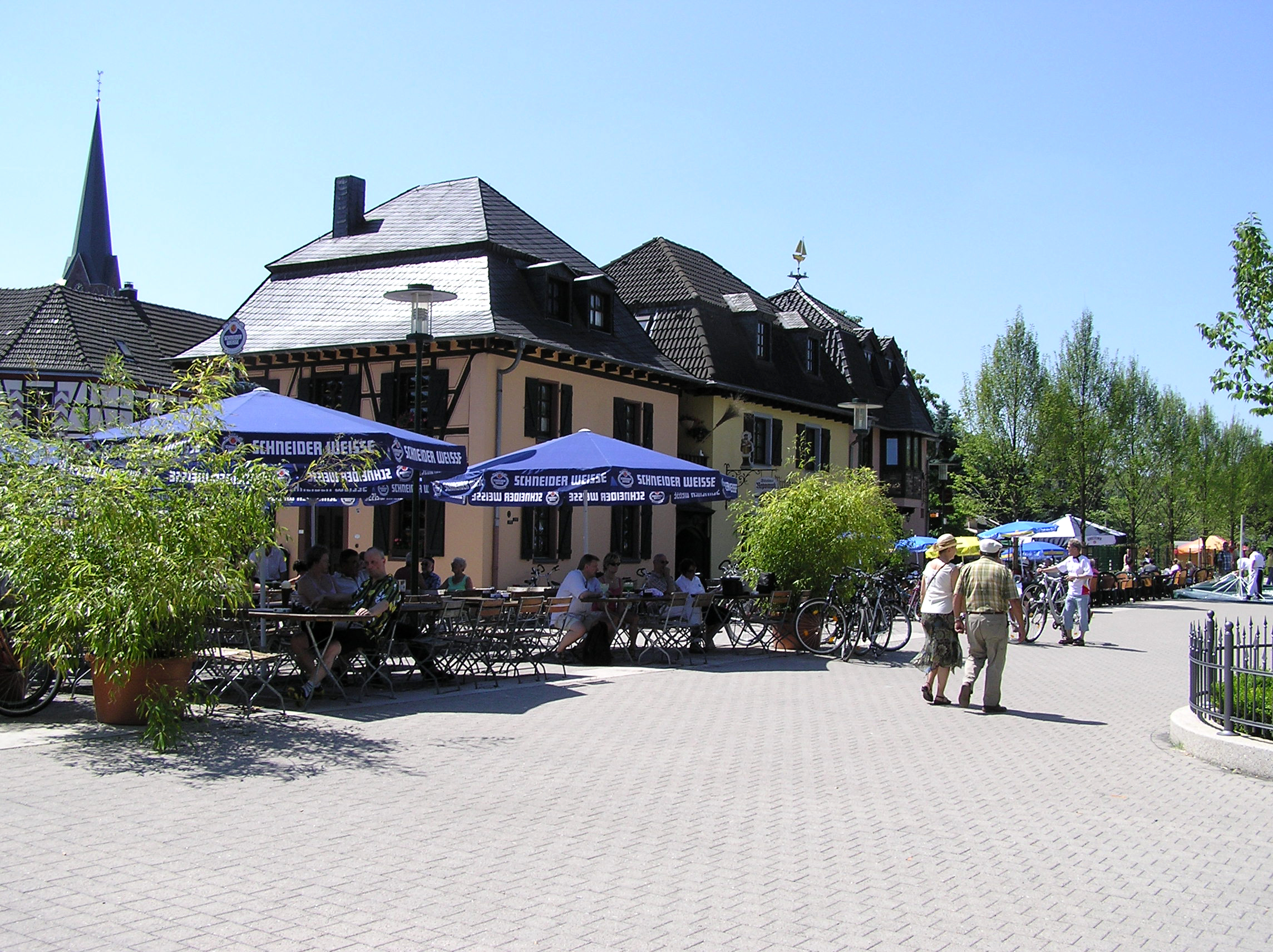 The market place of the small town Zündorf near Cologne, Germany.